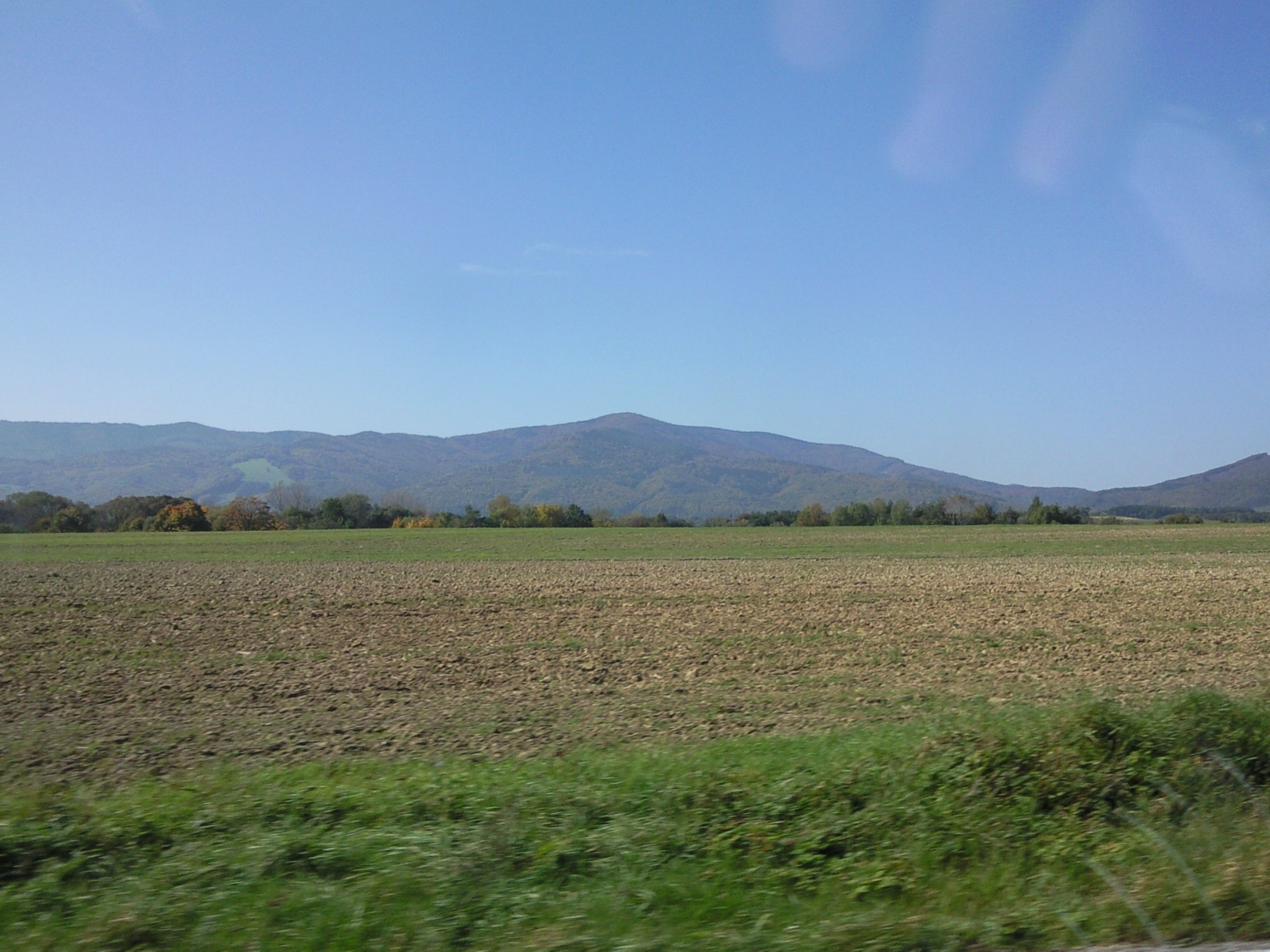 Magura, Prievidza, Slovkia